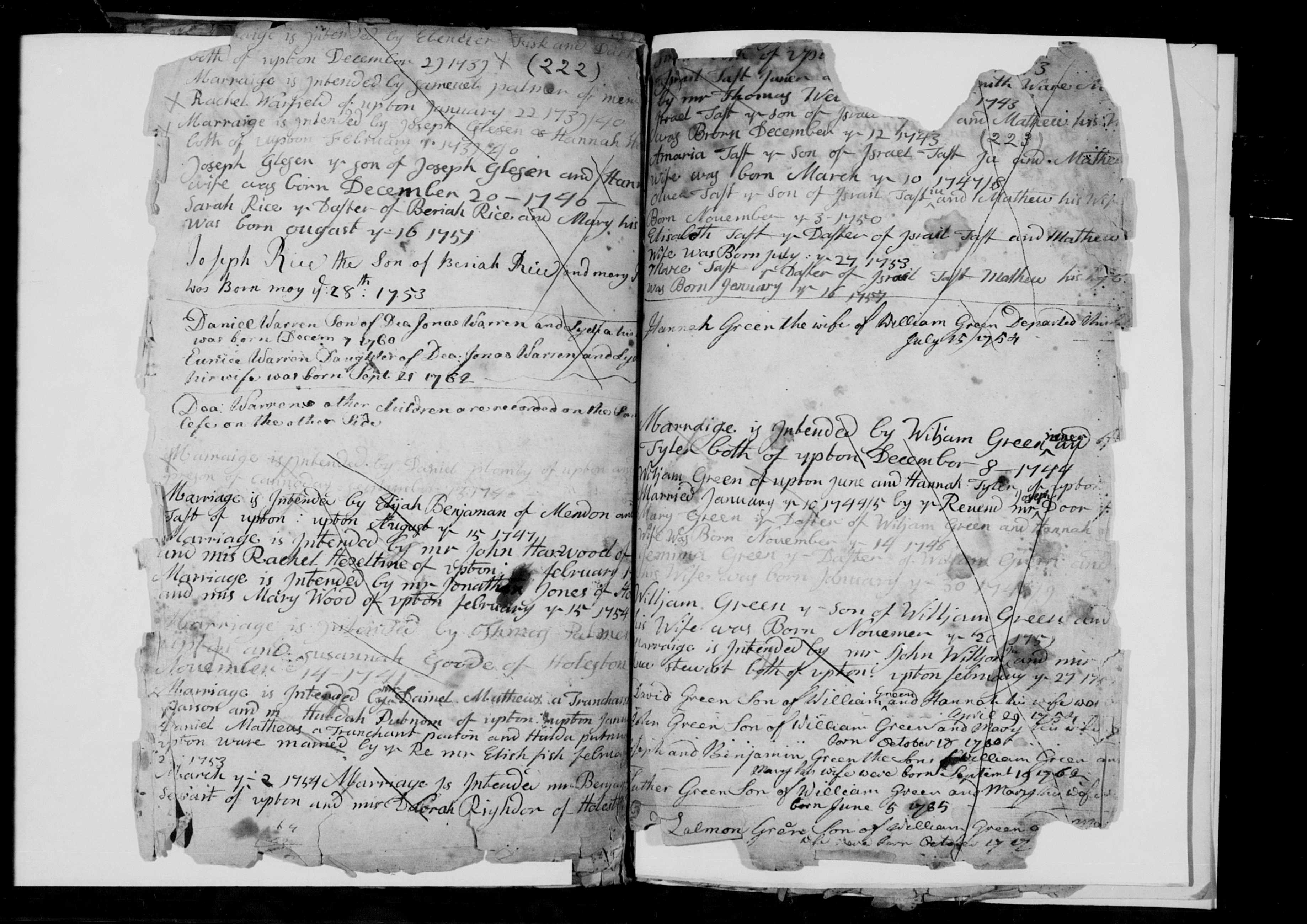 Massachusetts, Town Clerk, Vital and Town Records from 1747 denoting marriage record of Hannah Taft and Elijah Benjamin